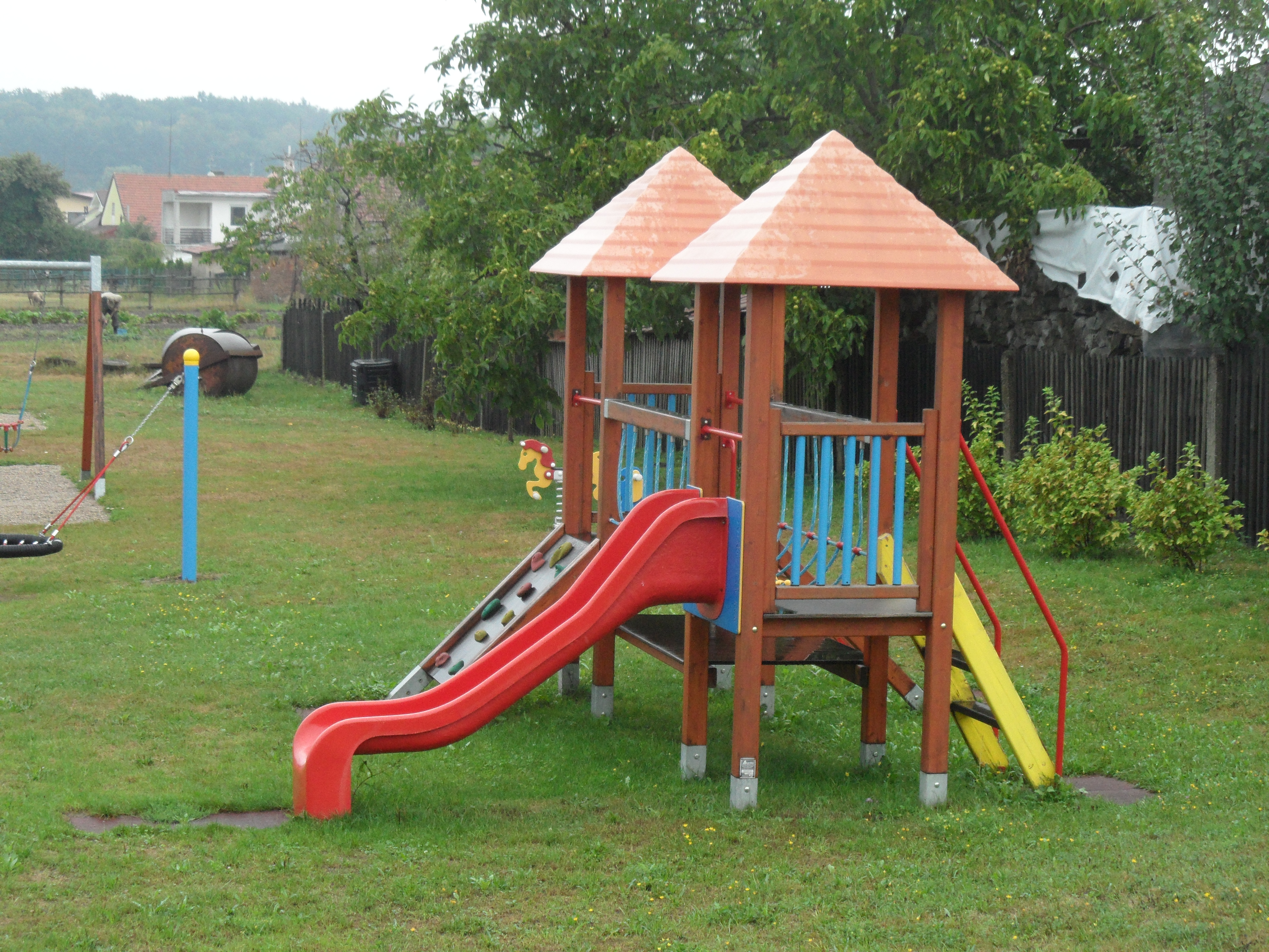 Chvojenec I. Childrens' Playground. Pardubice District, the Czech Republic.